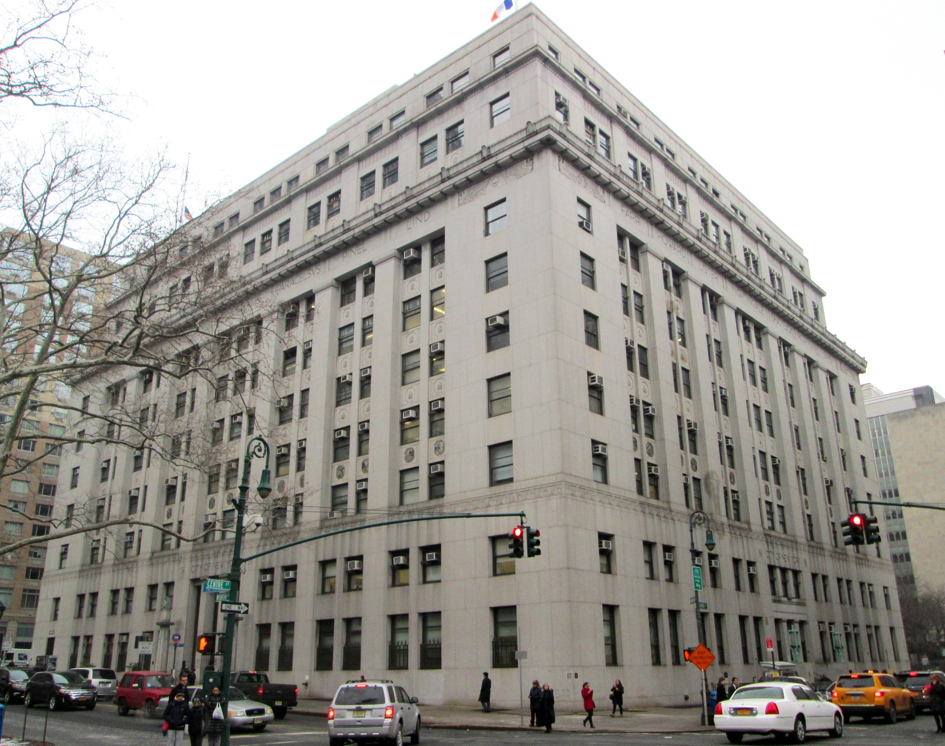 The Health Building at 125 Worth Street between Centre and Lafayette Streets in the Civic Center district of Manhattan, New York City was built in 1932-35 and was designed by Charles B. Meyers in a mixture of the Classical Revival and Art Deco styles. Originally built to house the city's Department of Health, it now contains the office of the Department of Health and Mental Hygiene, NYC Health + Hospitals (formerly the Health and Hospitals Corporation) and the Sanitation Department. The front and side entrances have medallions and bronze grillwork by Oscar Bach. (Sources: DCAS page and AIA Guide to NYC (5th ed.))